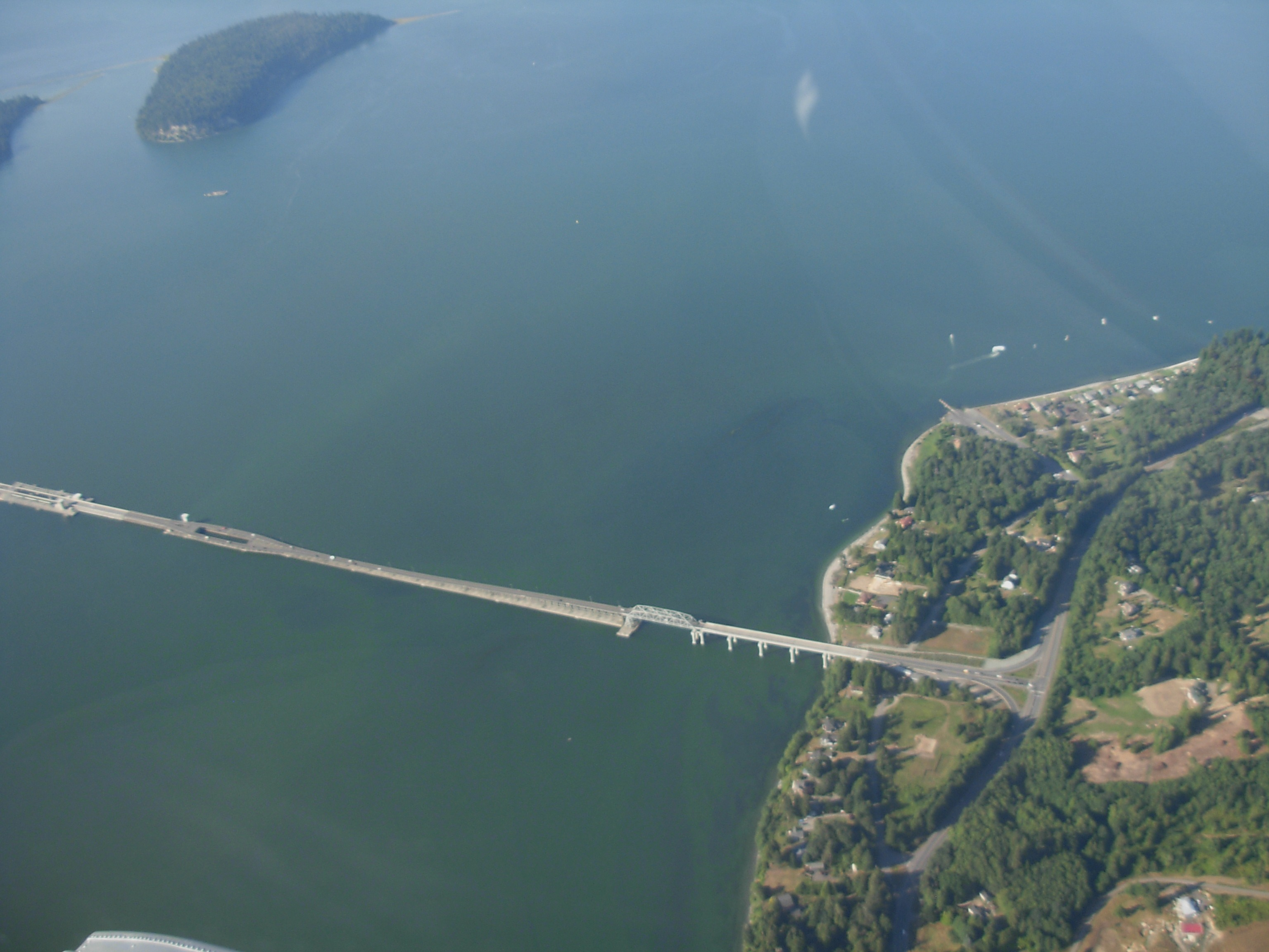 Aerial view of the Hood Canal Bridge in 2007, showing the floating bridge's central and southeasternmost sections.